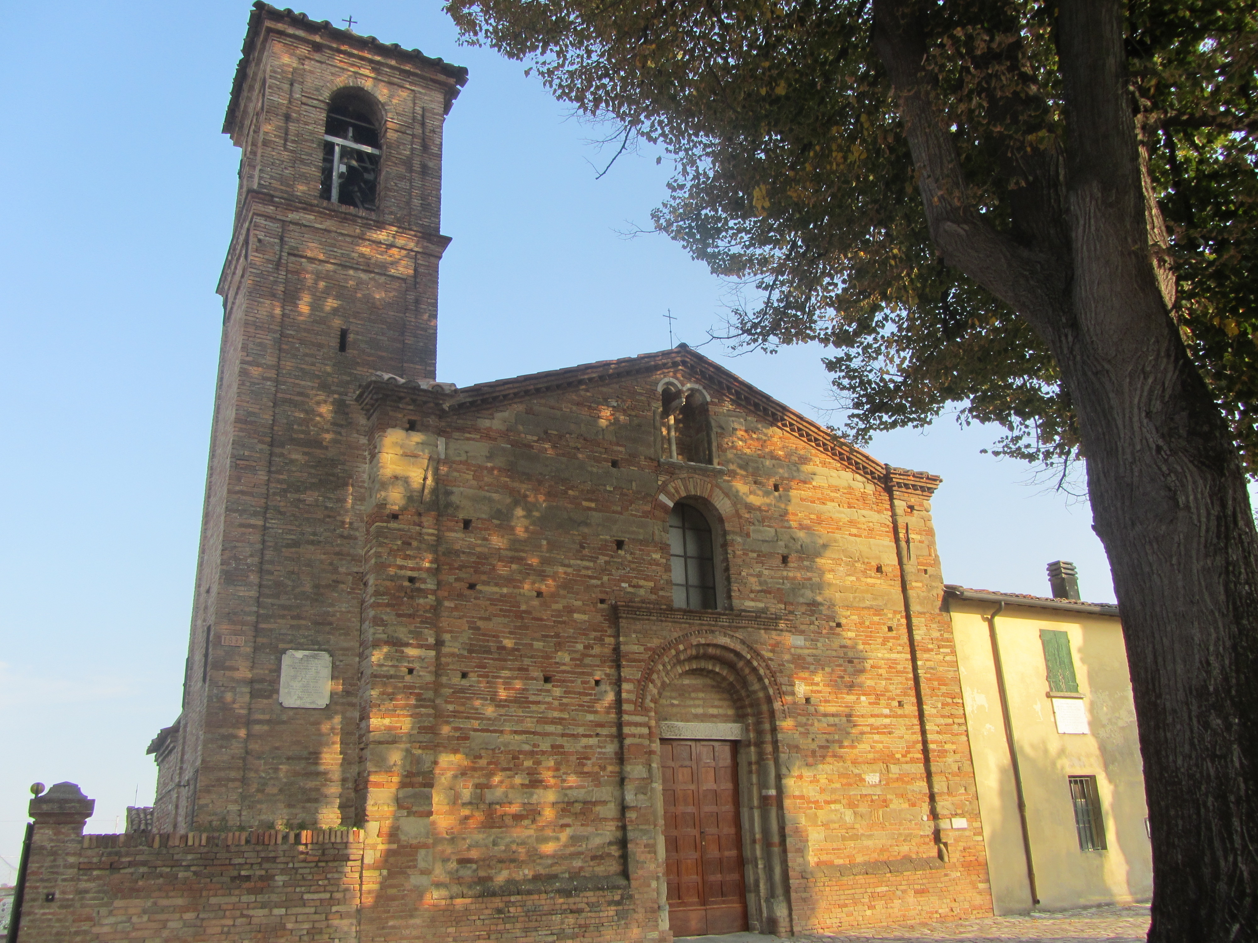 Savignano sul Rubicone, Pieve di San Giovanni in Compito